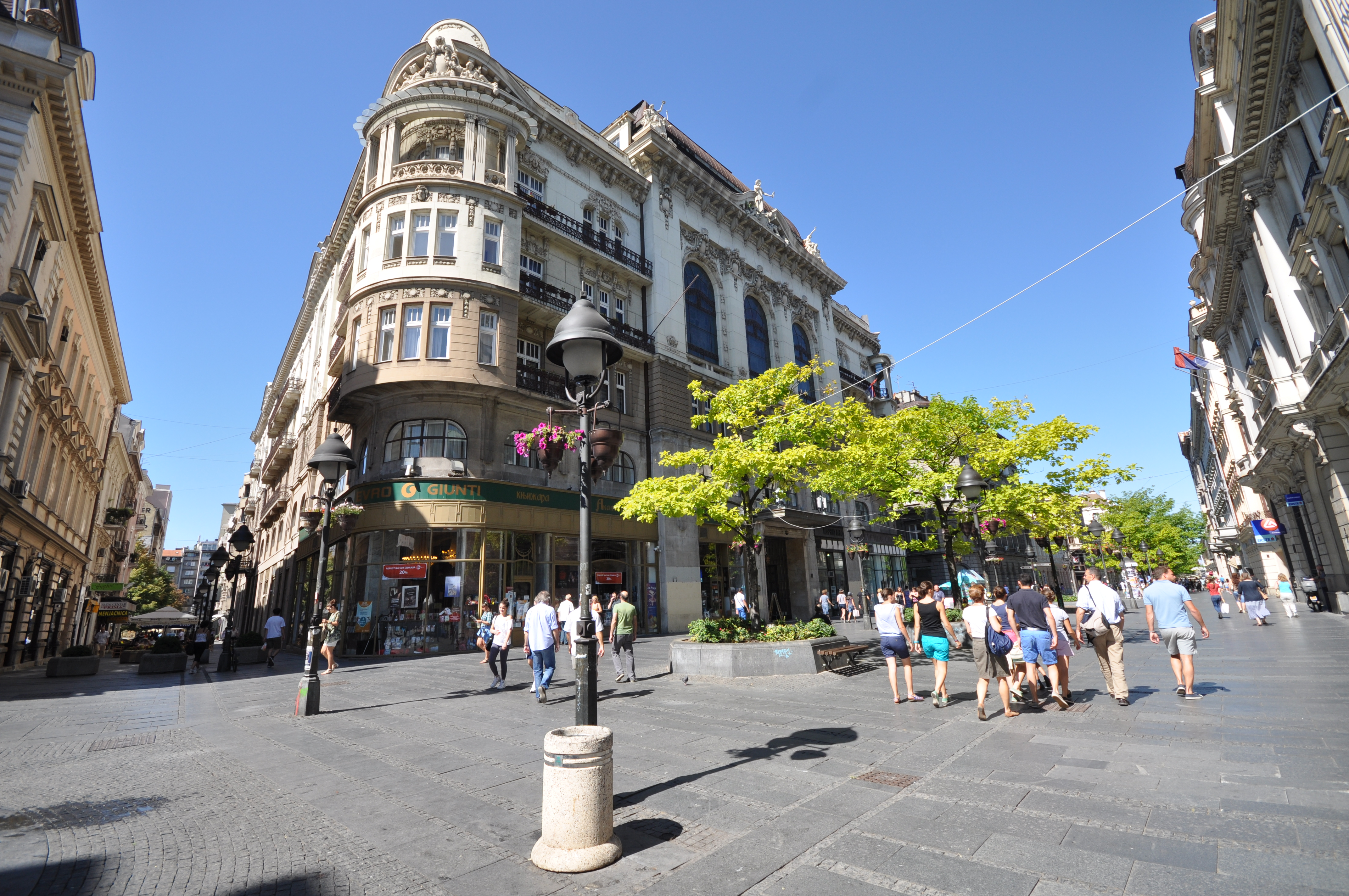 The Serbian Academy of Sciences and Arts (Српска академија наука и уметности) is a national academy and the most prominent academic institution in Serbia, founded in 1841. The Academy's membership has included Josif Pančić, Jovan Cvijić, Stojan Novaković, Branislav Petronijević, Mihajlo Pupin, Nikola Tesla, Milutin Milanković, Mihailo Petrović-Alas, Bogdan Gavrilović, Ivo Andrić, Danilo Kiš and many other scientists, scholars and artists of Serbian and foreign origin.